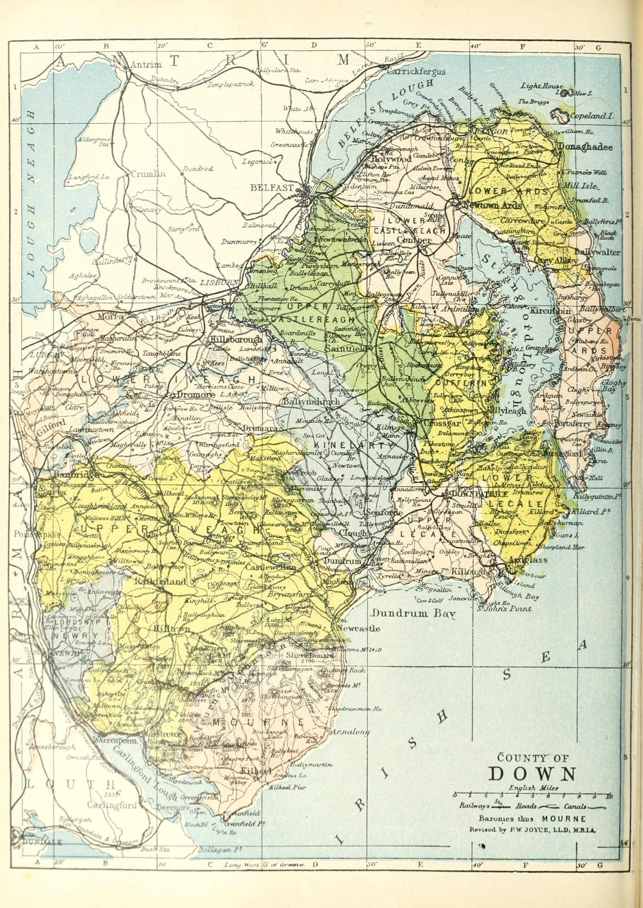 Map of the baronies of County Down in Ireland; taken from Atlas and cyclopedia of Ireland, p.97